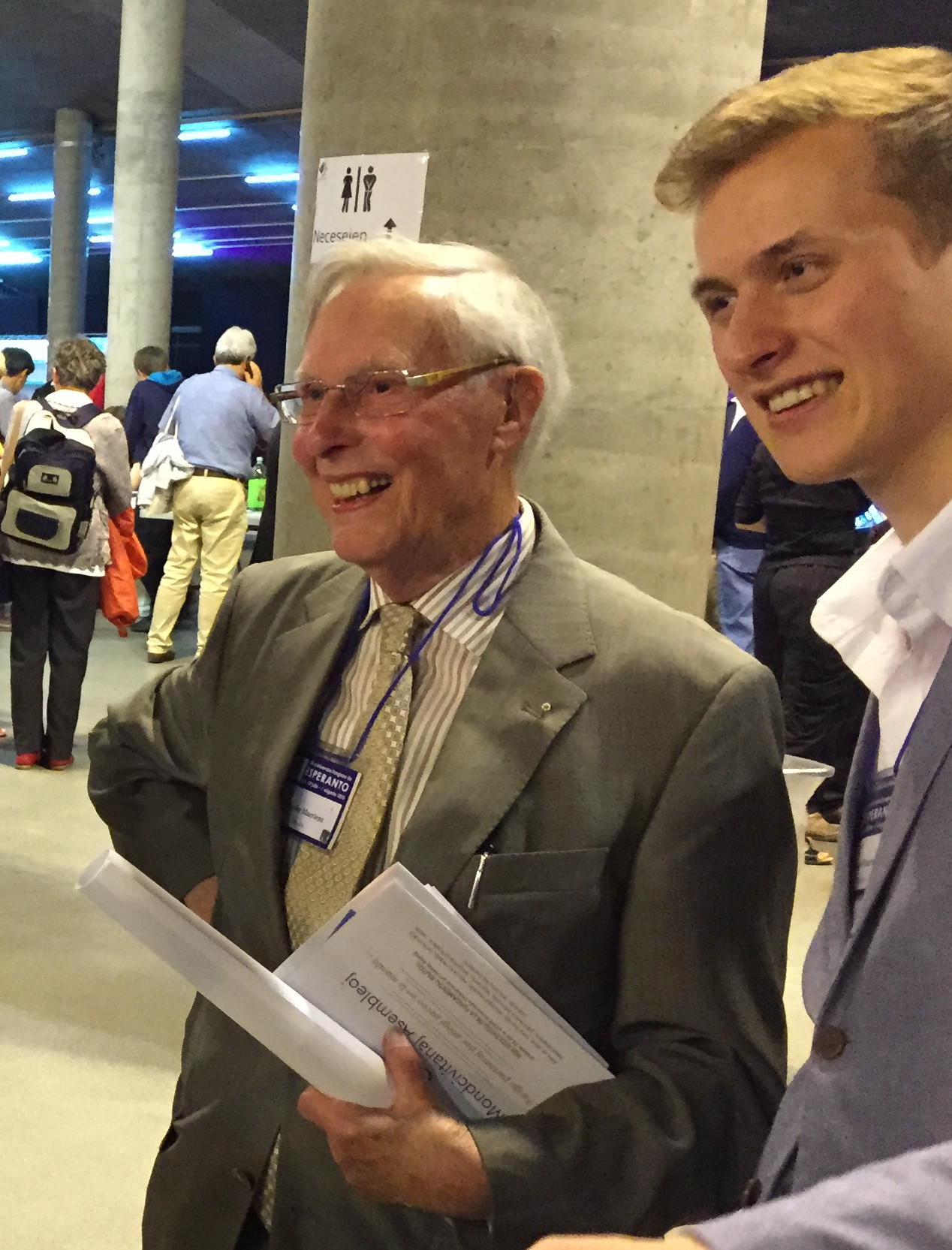 Grégoire Maertens with his grandson Rakoen Maertens during the last Esperanto congress of Grégoire Maertens, the 100th World Congress of Esperanto in Lille, 2015.